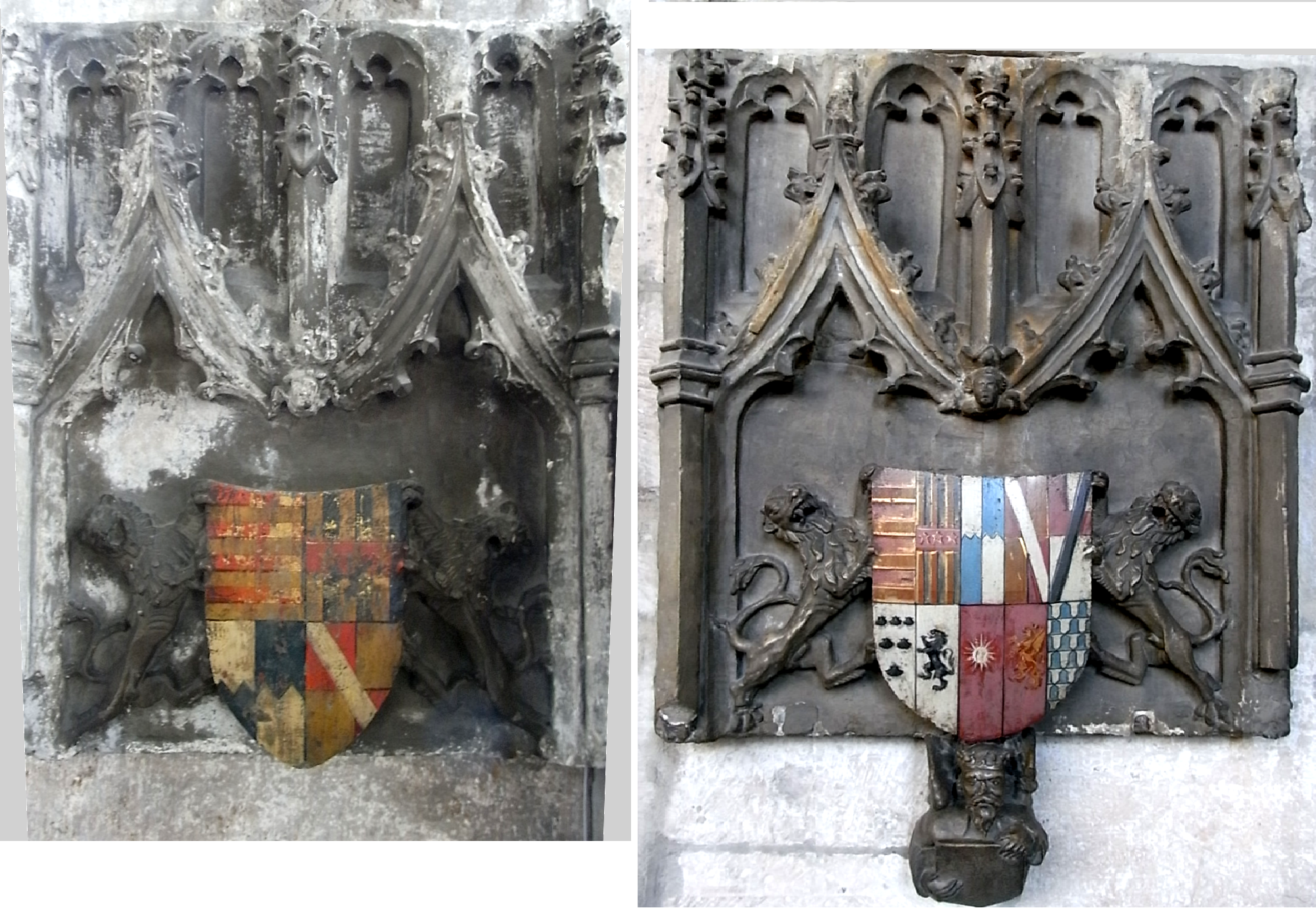 Remnants of chest-tomb of Sir Robert Poyntz (d.1520) lord of the manor of Iron Acton in Gloucestershire, in the Gaunt's Chapel, Bristol, in which he had built the Poyntz Chapel. He married Margaret Woodville, the illegitimate daughter and only child of Anthony Woodville, 2nd Earl Rivers (c. 1440-1483), Knight of the Garter (brother of Queen Elizabeth Woodville who married King Edward IV), by his mistress Gwenlina Stradling, a daughter of William Stradling of St Donat's Castle in Glamorgan, Wales. The shields display left: the arms of Poyntz of 4 quarters: 1:Poyntz; 2:de Acton; 3:Clanvowe; 4:FitzNichol ( John MacLean (historian) |Maclean, Sir John & Heane, W.C., (Eds.), The Visitation of the County of Gloucester Taken in the Year 1623 by Henry Chitty and John Phillipot as Deputies to William Camden Clarenceux King of Arms, etc, London, 1885, p.130); right: Poyntz with 4 quarters as left, quartering in addition Woodville and that family's own quarterings. 5th quarter is Woodville with baton sinister for bastardy; 6:Scales: Gules, six escallops or (Burkes General Armory, 1884[1]), an heiress of Woodville.